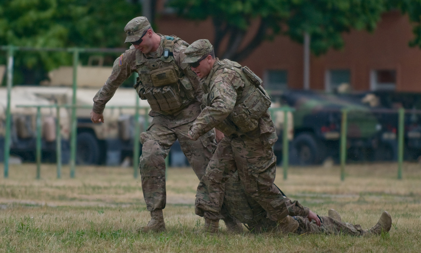 Soldiers with Dog Company, 1st Battalion (Airborne), 503rd Infantry Regiment, 173rd Infantry Brigade Combat Team (Airborne) carry a mock casualty during care under fire training at an LLF base in Alytus, Lithuania, July 9, 2015. The Soldiers are part of Atlantic Resolve; a multinational NATO initiative committed to building strong partnerships and enhancing interoperability among allies throughout the Baltic Region. (U.S. Army photo by Sgt. Jarred Woods, 16th Mobile Public Affairs Detachment)